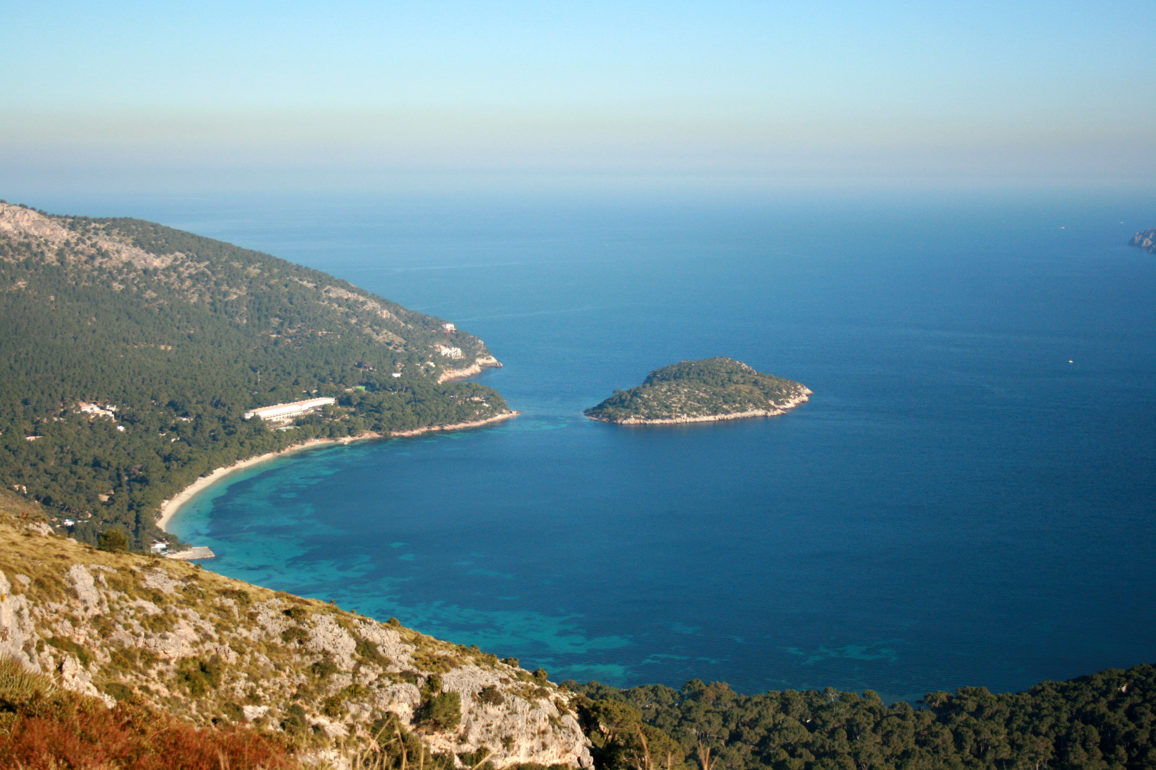 View from Talaia d'Albercutx, peninsula of Formentor, Pollença, Mallorca